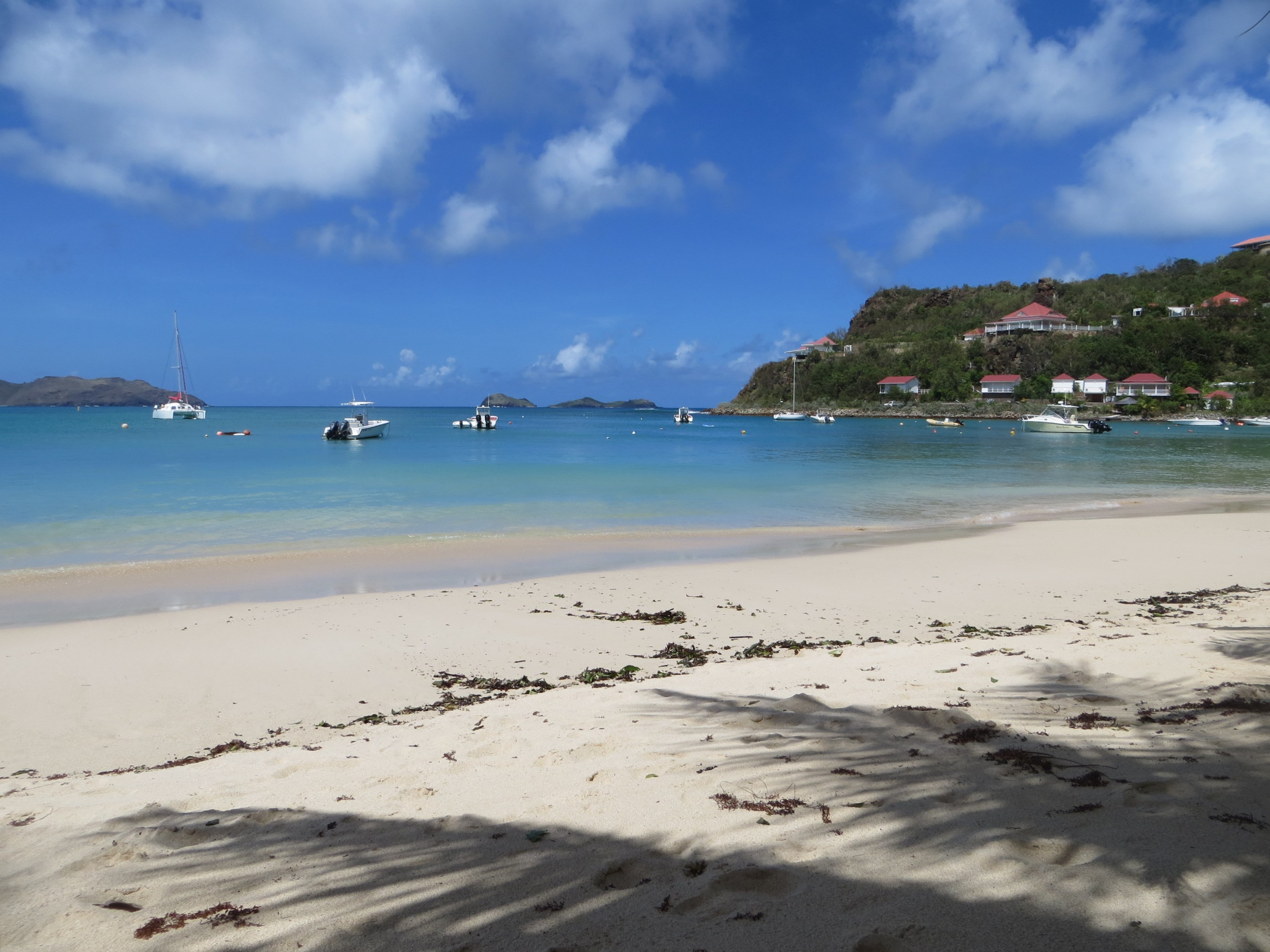 St Jean Beach, St Barths, Oct 2014